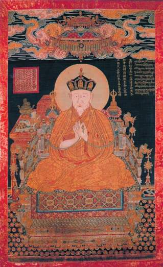 Tangka painting bestowed by emperor of the Ming Dynasty: the statue of the Great Mercy Dharma King